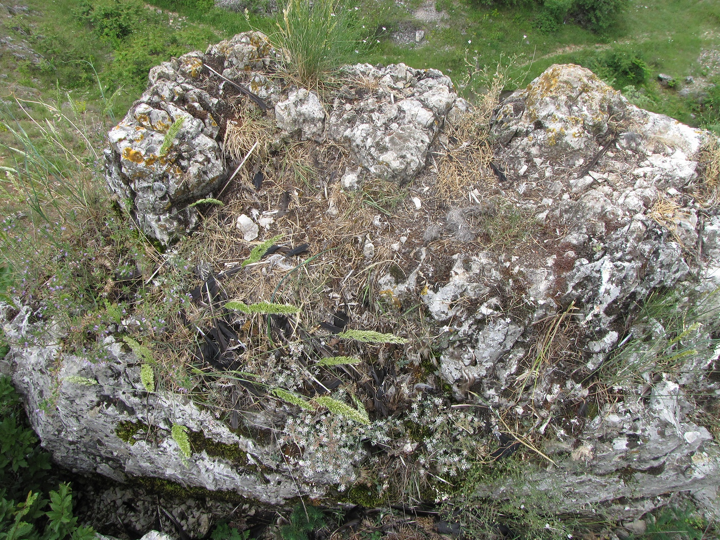 Eagle owl feeding place